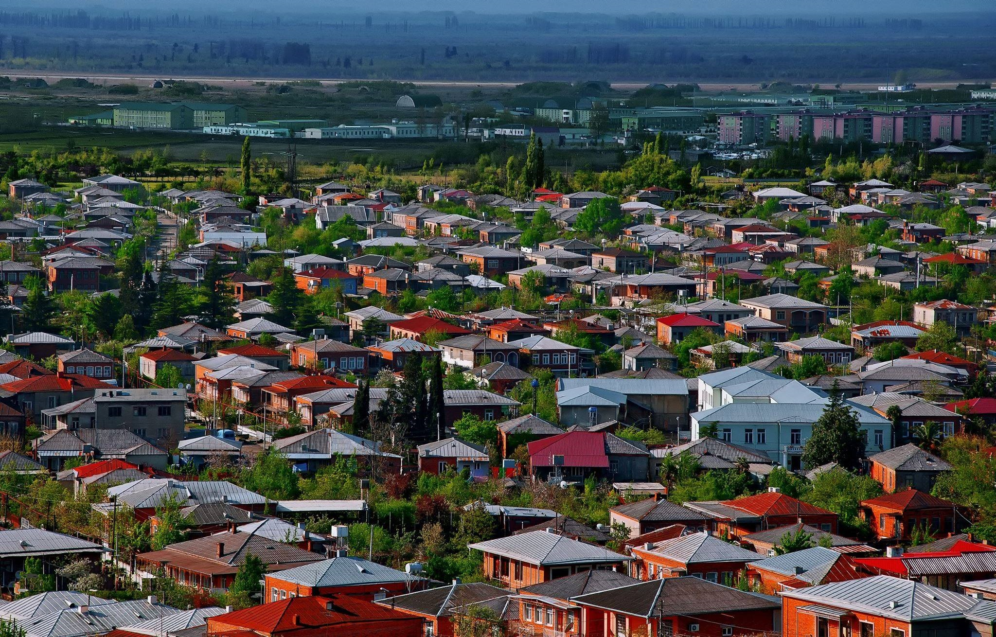 Senaki Military Base